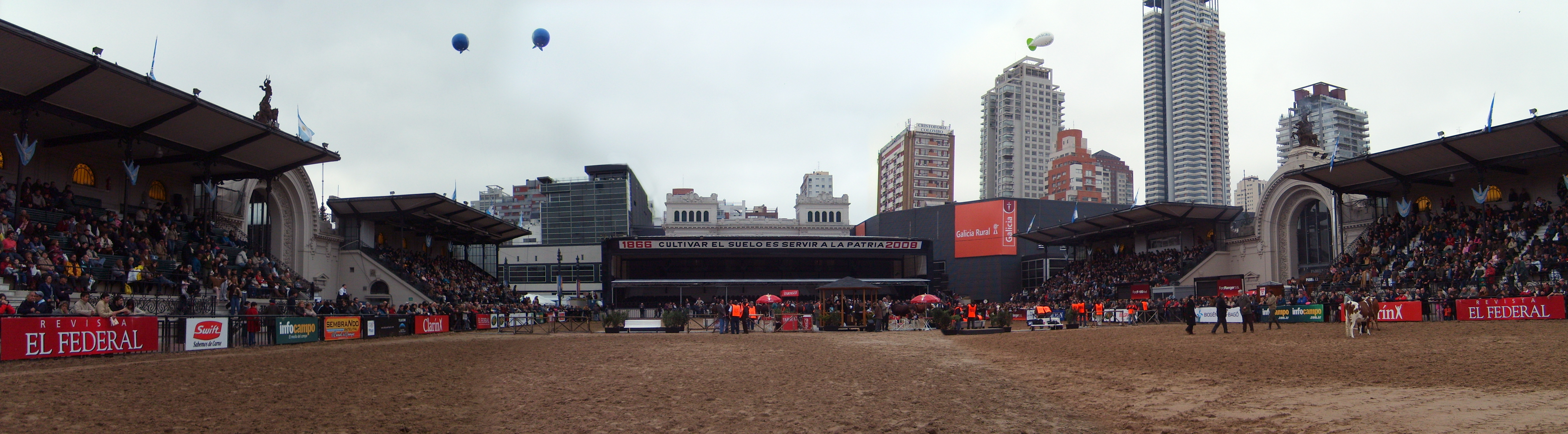 Panoramic image on three photos of the 2008 "La Rural" Expo in its 2nd day. Edited and created in X3 Corel Photopaint.